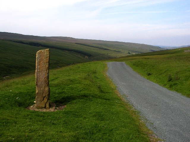 Hunters Stone, Coverdale. Taken from MR: SD99247666 looking NNE down Coverdale.